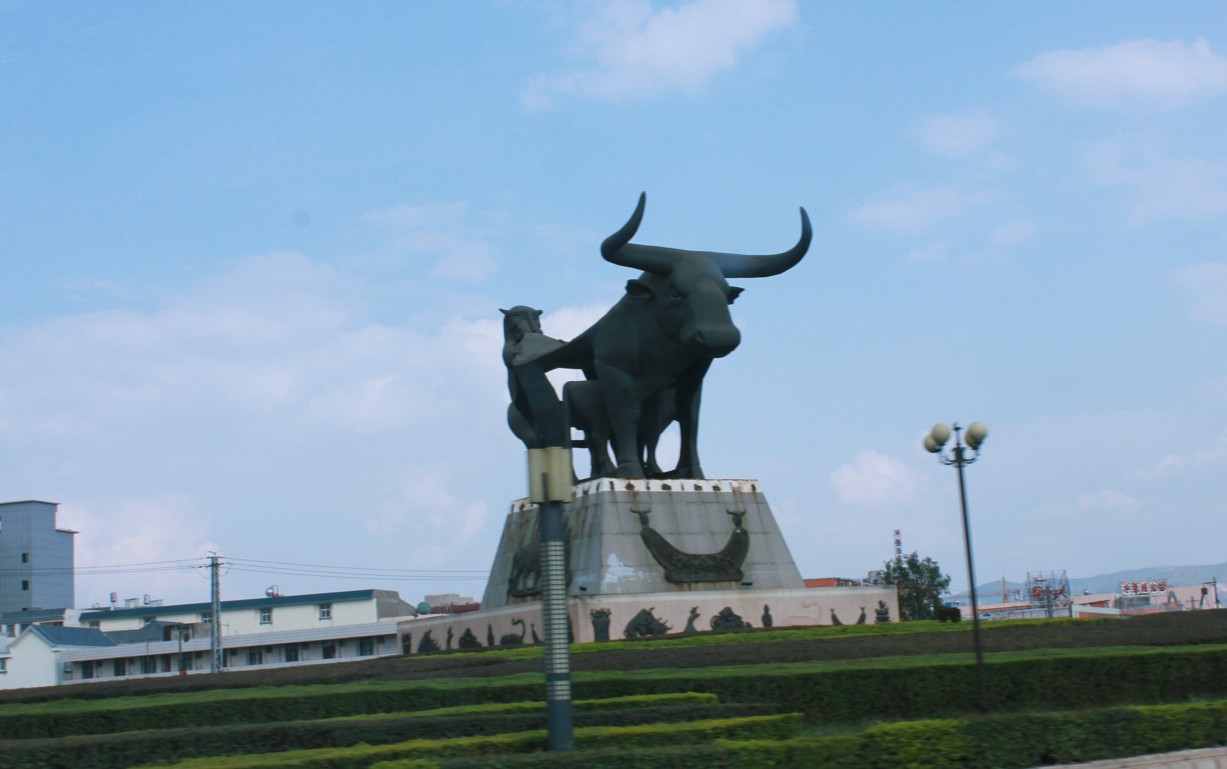 A sculpture in Jiangchuan County，Yuxi City，Yunnan，China。